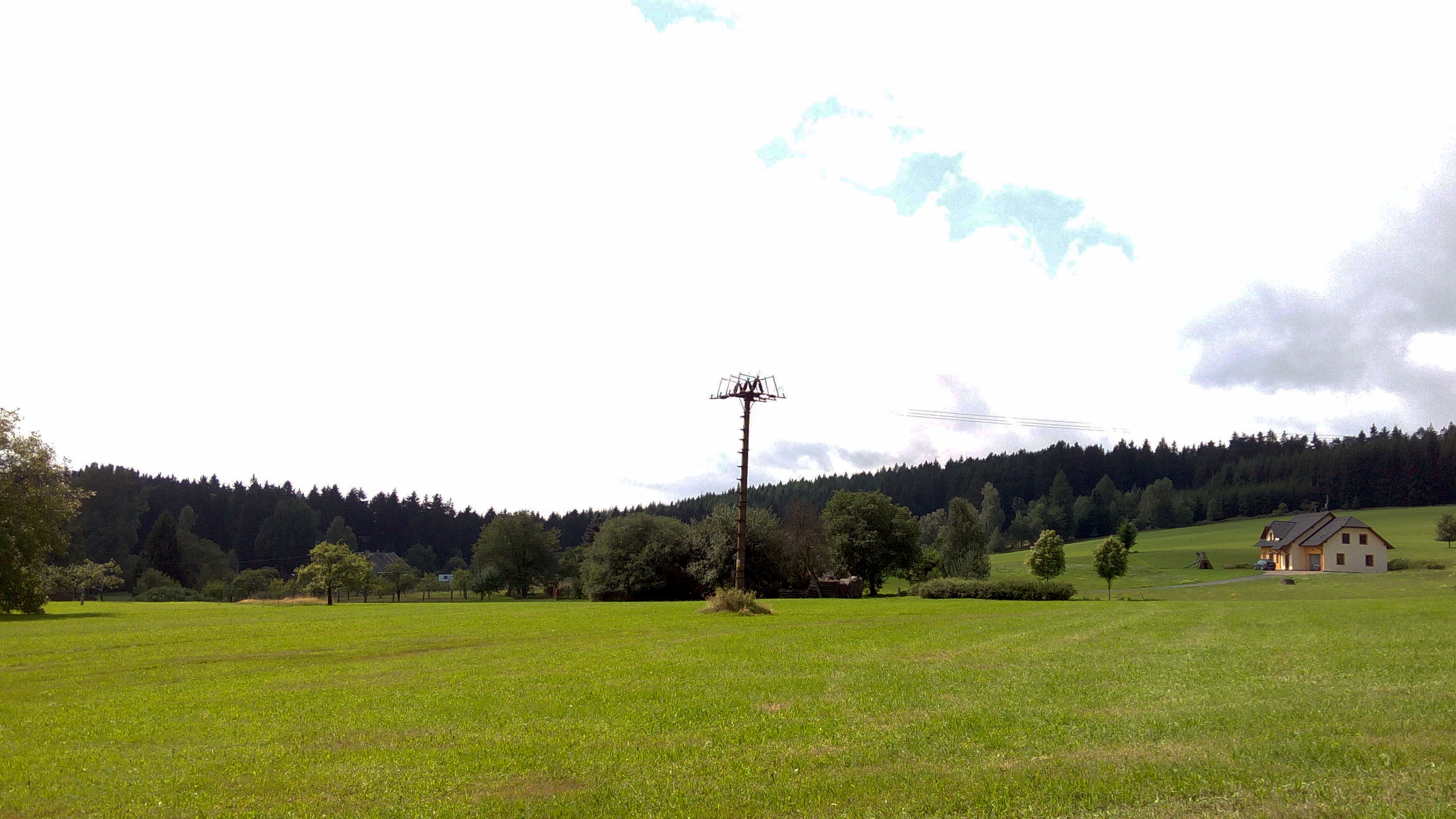 Village Filipova Hora, Domažlice district, Plzeň Region, Czech Republic.